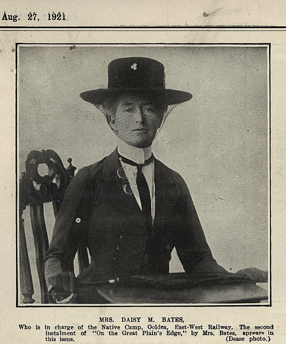 Daisy Bates - "Mrs Daisy M. Bates who is in charge of the Native Camp, Ooldea, East-West Railway, 1921 Aug. 27"